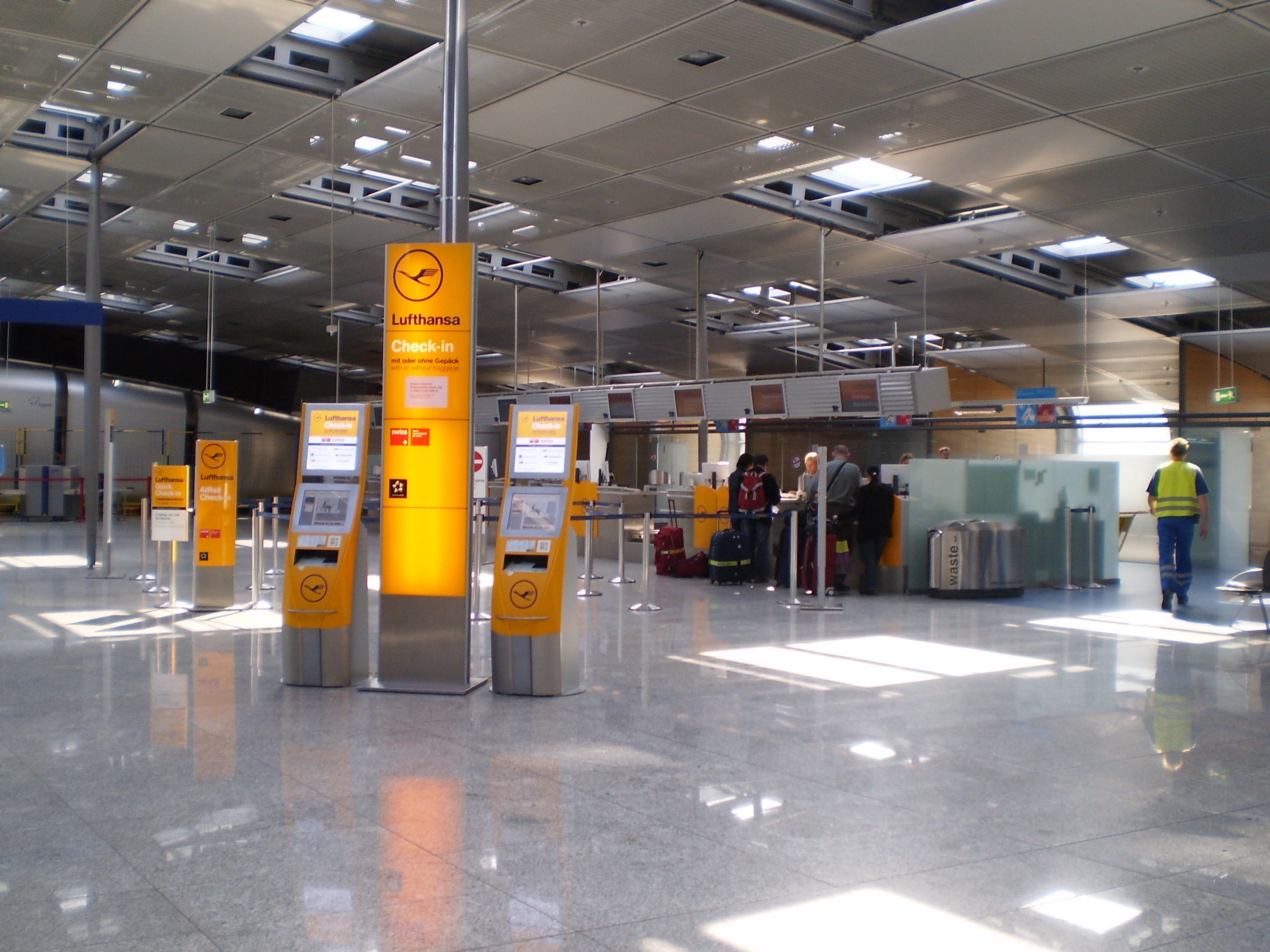 Check-in counters of Lufthansa/Swiss, Frankfurt Airport